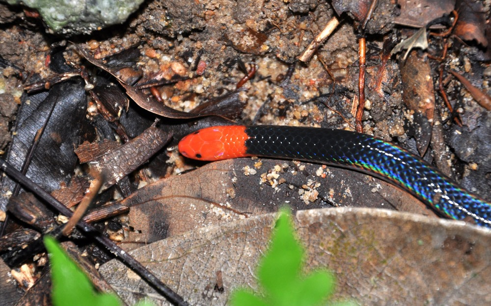 The pink-headed reed snake (Calamaria schlegeli) in Singapore. It is often confused with the blue Malaysian coral snake (Calliophis bivirgatus).